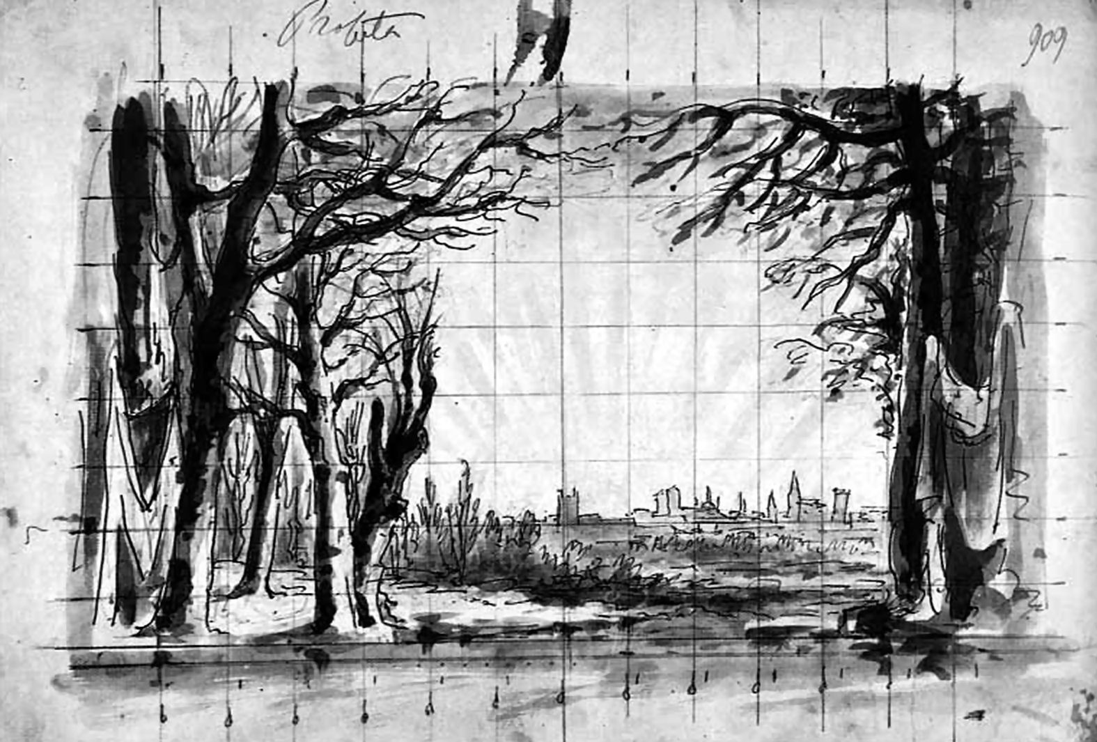 Le Prophète: sketch of the opera set by Giuseppe Bertoja (1804-1873) for the third act (La Fenice, Venice, Italy, 1856)